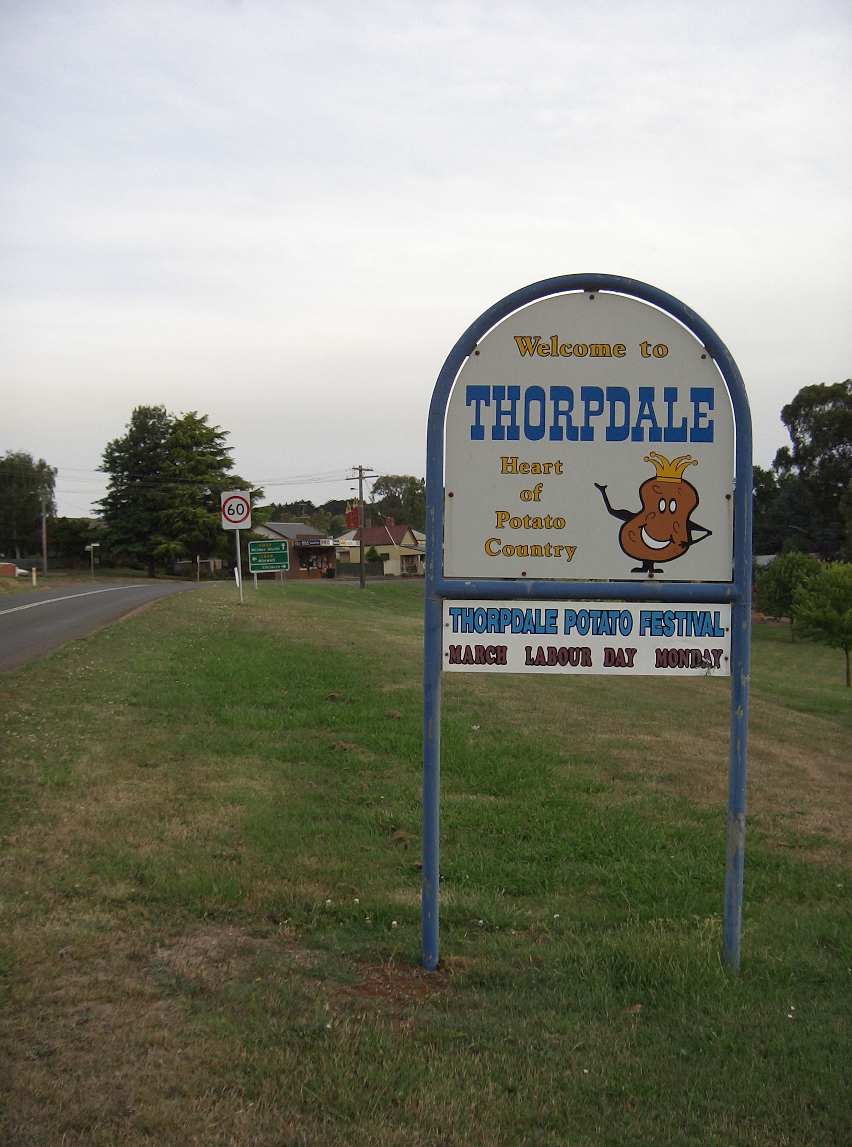 The sign welcoming people to the town of Thorpdale, Victoria.